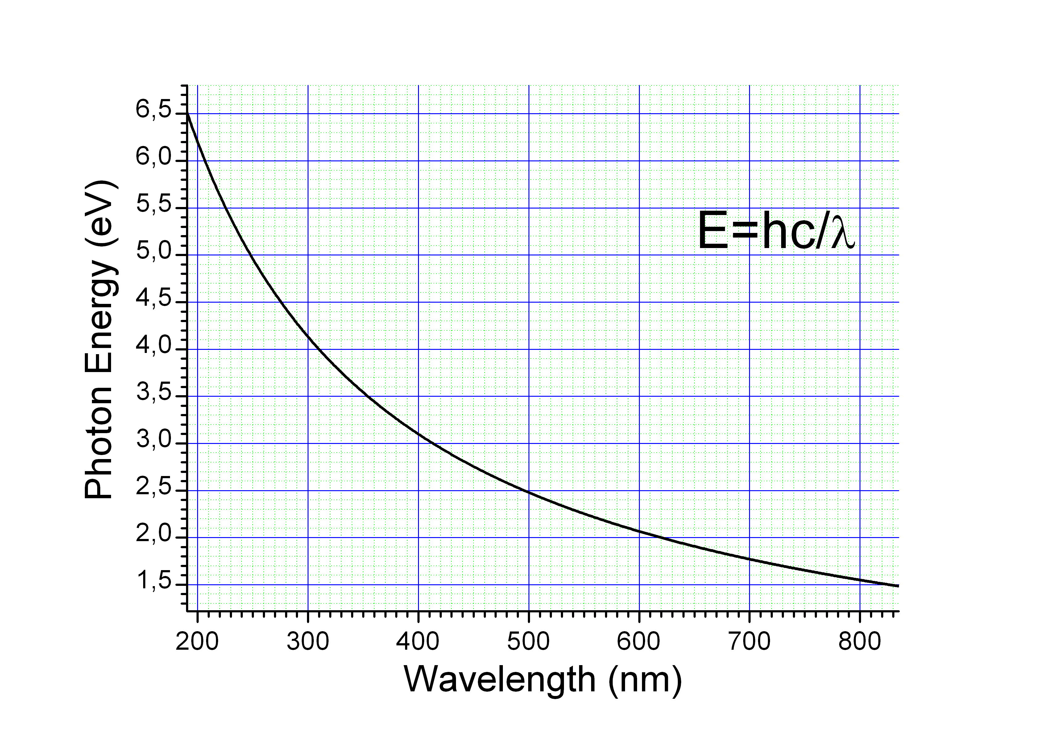 Plot showing how photon energy and wavelength (UV-VIS-NIR) are related.